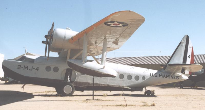 Sikorsky S-43 at Pima Air & Space Museum, Tucson AZ, painted to represent a US Marine Corps JRS-1 of VMJ-2 Squadron